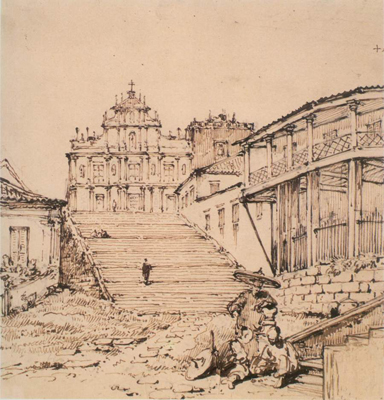 Pen and ink over pencil on paper of the church and steps of St. Paul, Macao.